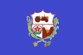 Flags of the city of Centralina, Minas Gerais, Brazil.